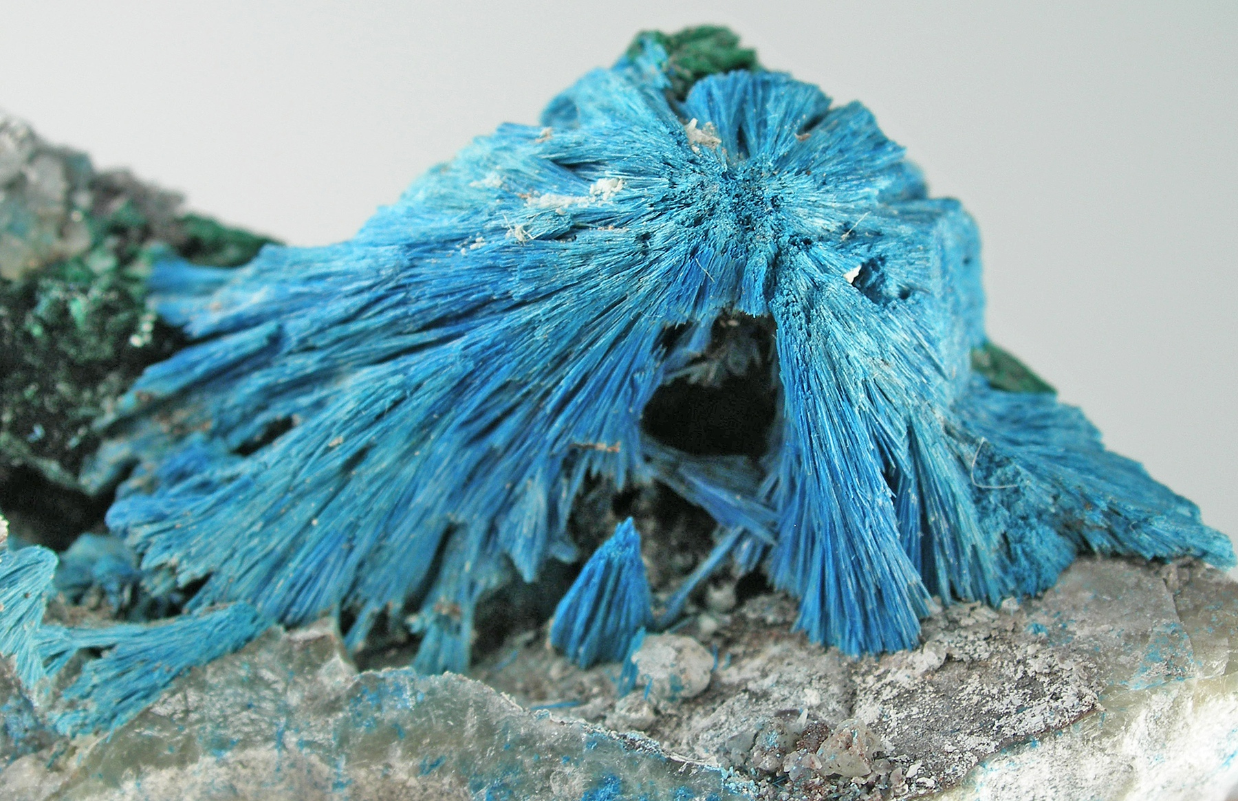 Shattuckite Locality: Okenwasi Mine, Kaokoveld Plateau, Kunene Region, Namibia Size: small cabinet, 6.8 x 5.2 x 4.3 cm Shattuckite (rare crystals ps. after Malachite) A rare, crystallized shattuckite specimen! Crystals, such as this, are much more uncommonly seen from any deposit where this species is found, than druses and globular growths. These are actually pseudomorphs after malachite, I was recently informed. Nevertheless, this is the BEST locale for the species, for large crystals - and this specimen would host some of the larger ones that I know of. The crystals , to 3 cm, form an upside-down spray of elongated, acicular crystals atop a contrasting quartz matrix. THESE ARE VERY 3-DIMENSIONAL in person. The cluster is complete around the backside as well (showing xls to 2 cm on the reverse, admixed with malachite). A major specimen, for both significance and display, this piece was illustrated in the JAN-FEB 2010 issue of ROCKS & MINERALS magazine, in the "Connoisseurs' Choice" Column, a recurring feature on a particular species and some of its significant known specimens. This was found 2-3 years ago, and is from the collection of noted dealer and miner, Charlie Key, also then in the Marshall Sussman collection til now